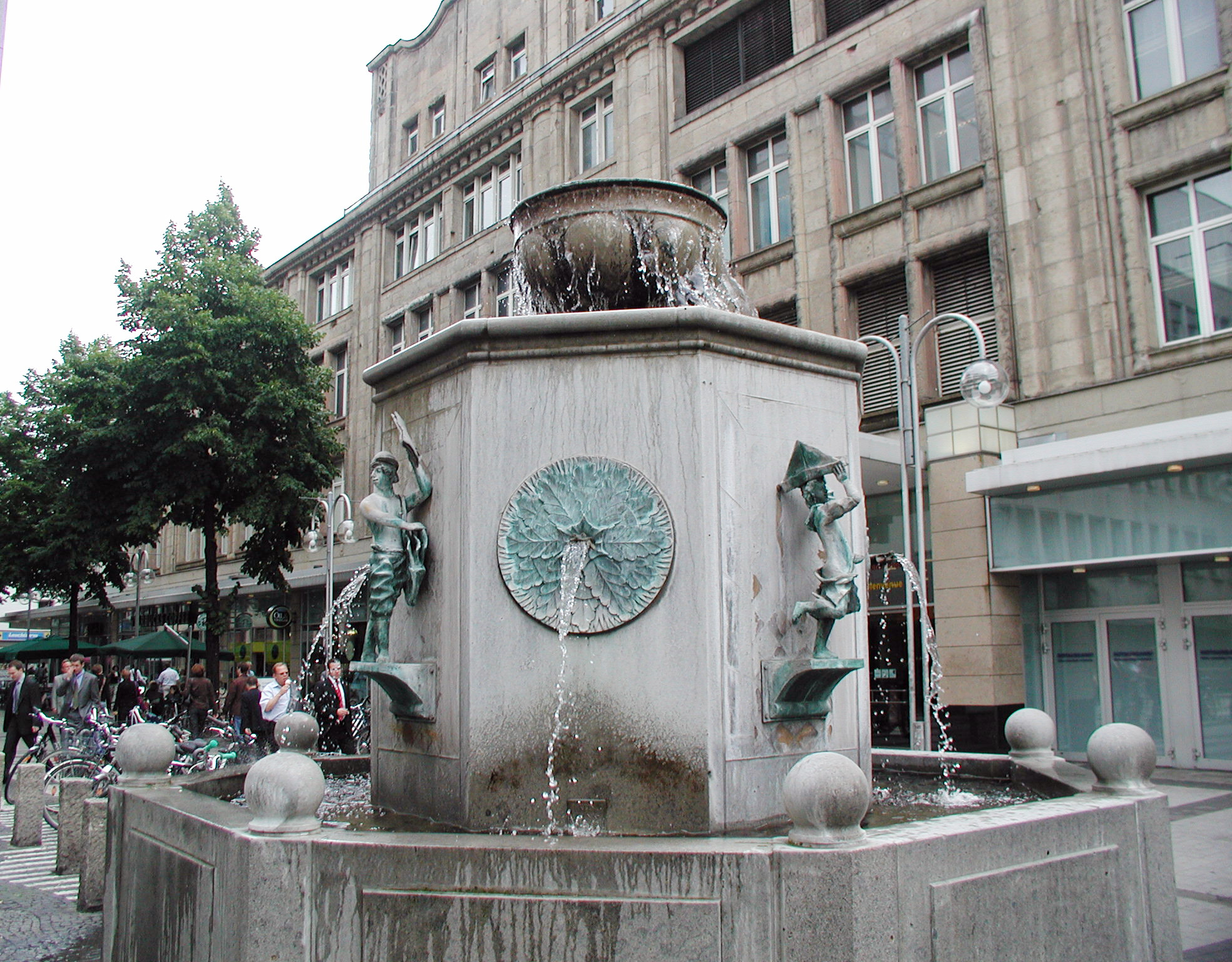 Cologne, fountain "DuMont Brunnen"